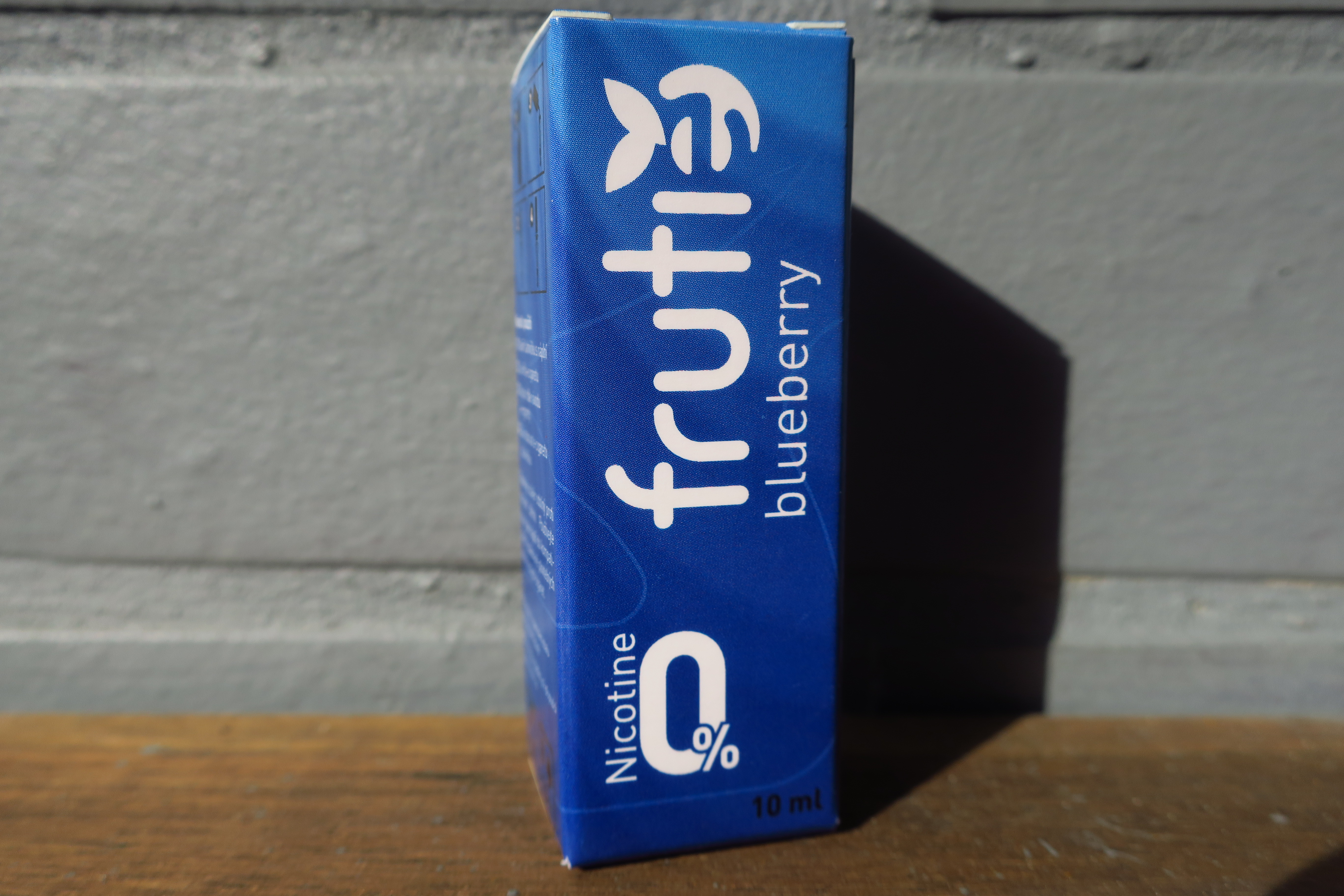 E-liquid Fruit arome FRUTIE